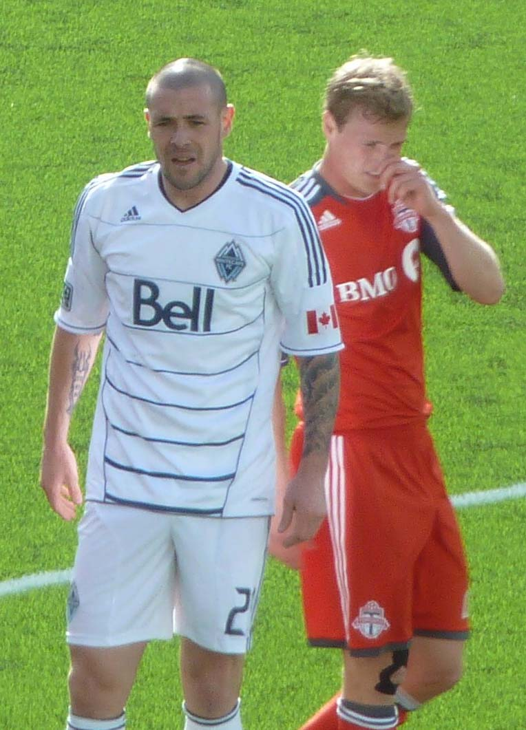 Eric Hassli in a game for the Vancouver Whitecaps. Vancouver vs Toronto, 19-Mar-2011